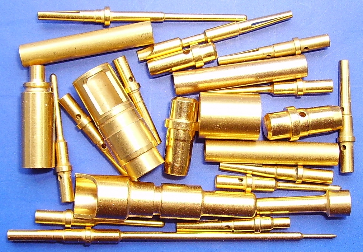 Gold-plated cylindrical electrical connectors for high tech (aviation, aerospace...). Scale: the lower connector length is 46 mm.